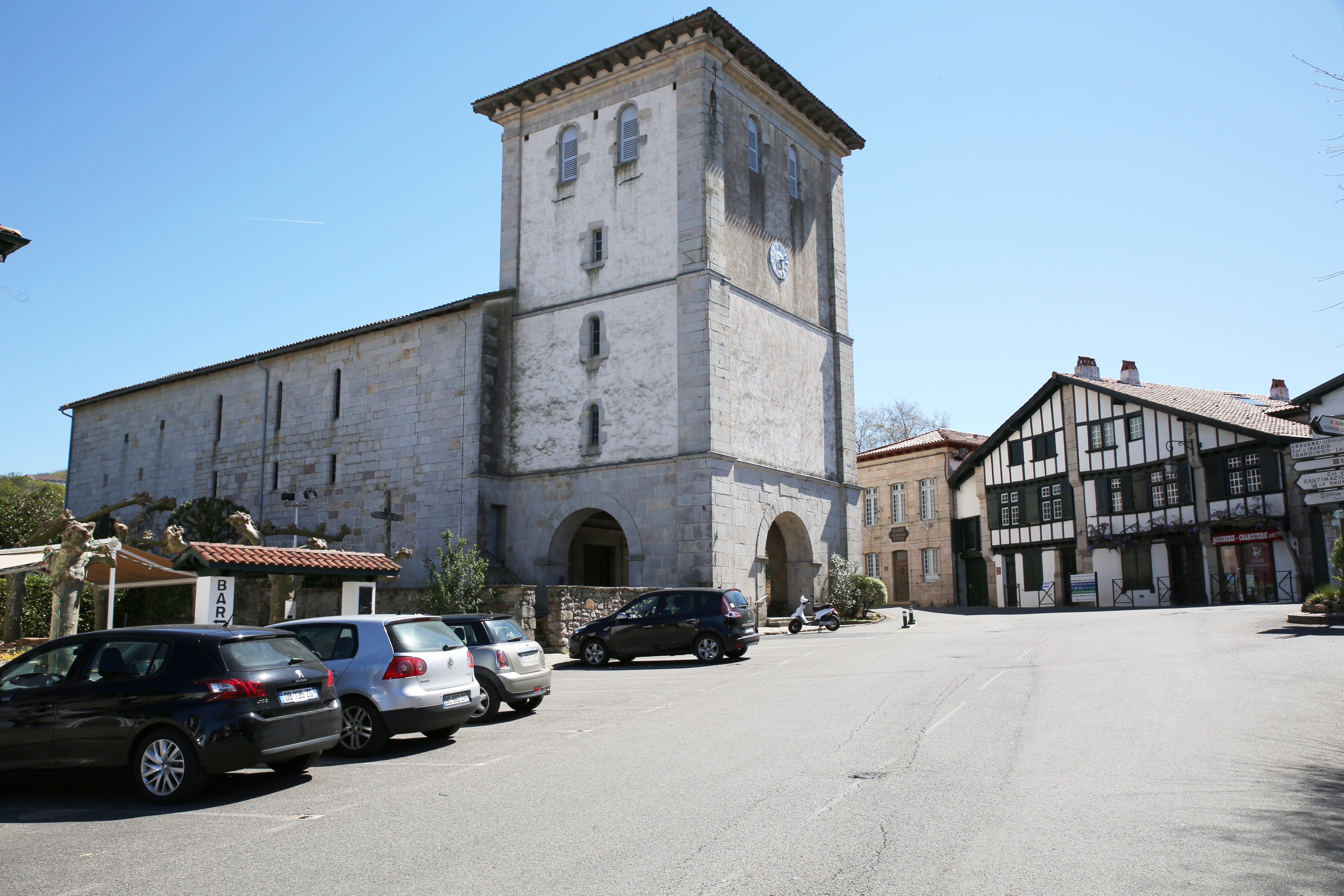 Church of Ascain